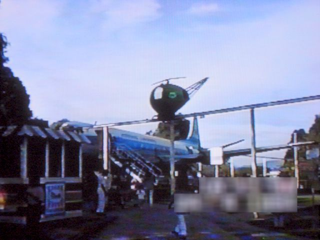 Filmed on a video camera on April 24, 1994, played back on VHS on a plasma televison and took picture of television with my digital still camera. Can be used for any purpose for any reason.